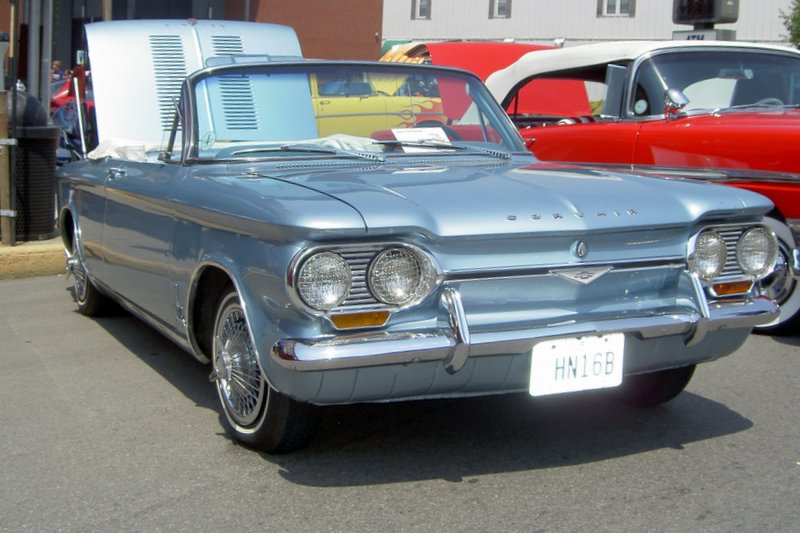 1964 Chevrolet Corvair Monza 900 Turbo Spyder